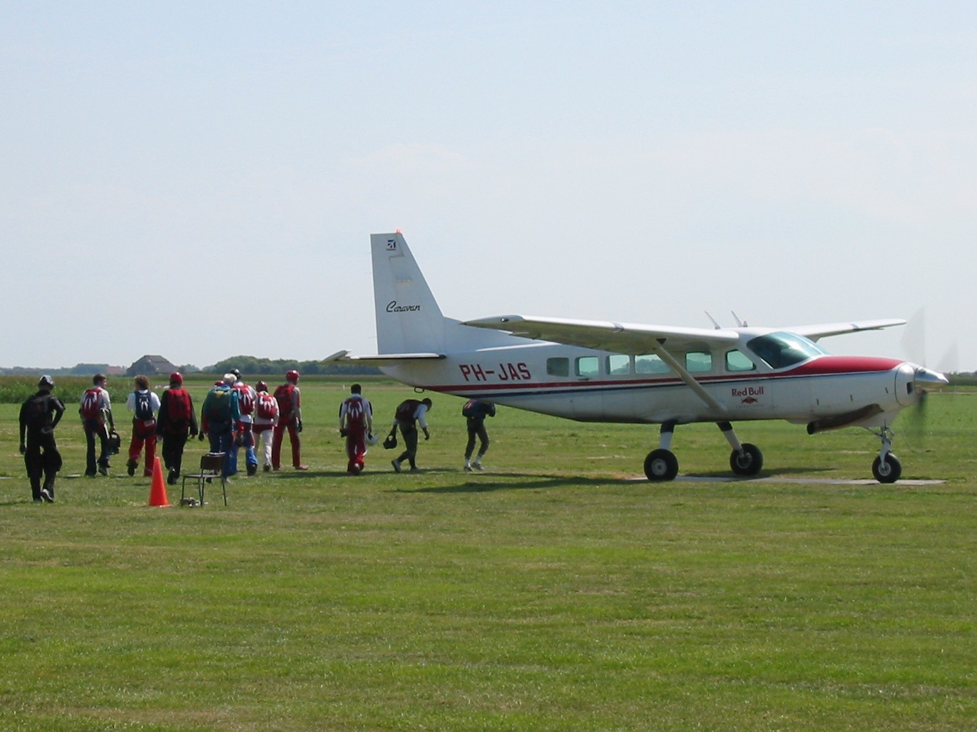 A group of skydivers walking to a Cessna 208 at Texel International Airport. Own photo made in juni 2003.